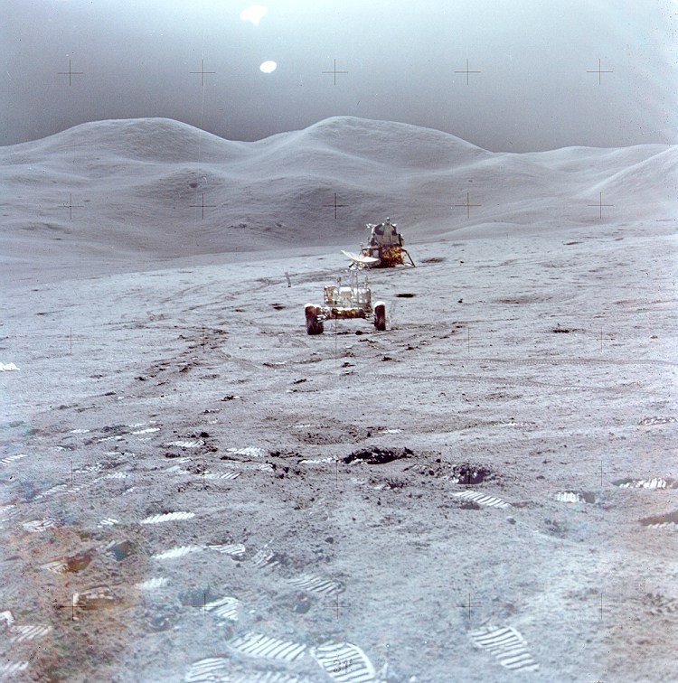 Falcon and LRV with Swann Hills in the background AS15-87-11852